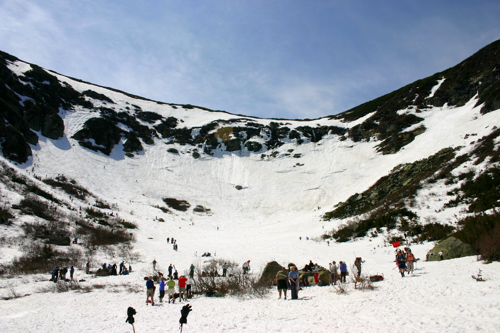 Tuckerman Ravine with Spring Skiing